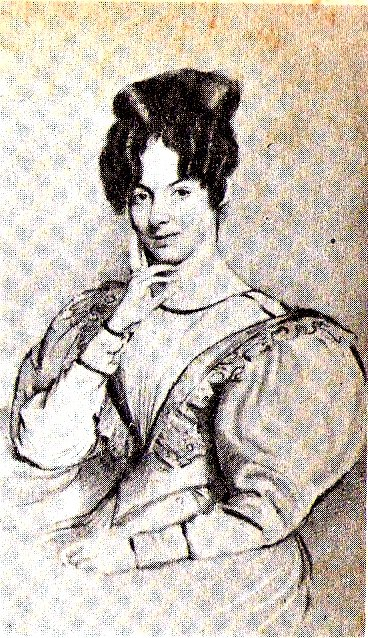 Sara Disraeli